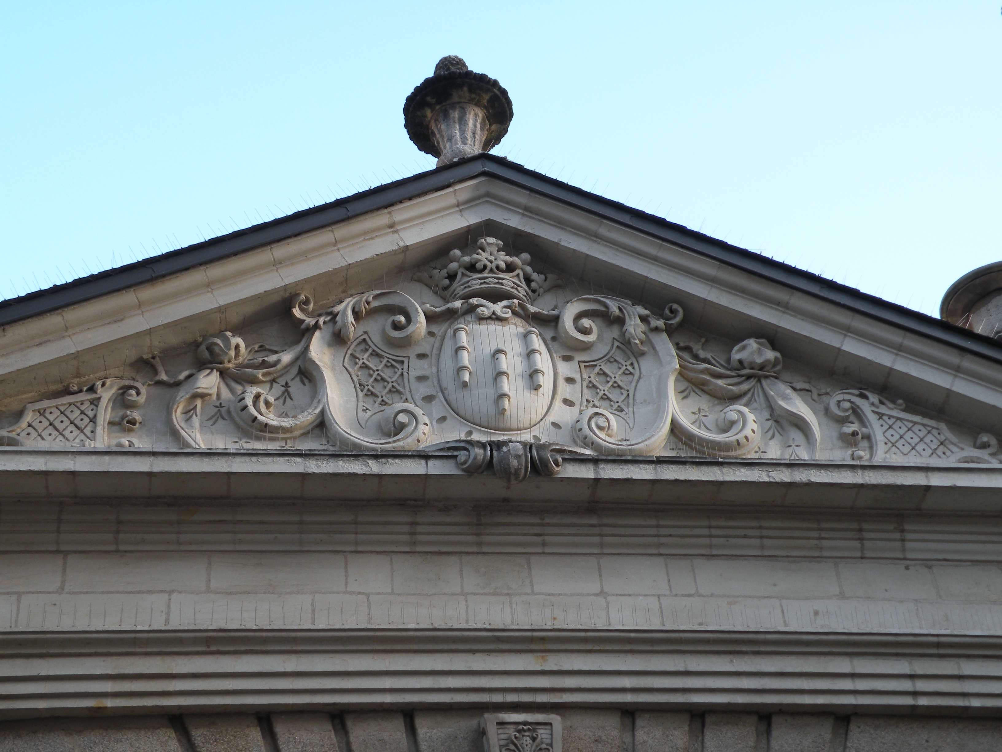 Main entrance of the Hôtel de Blossac, an hôtel particulier in Rennes